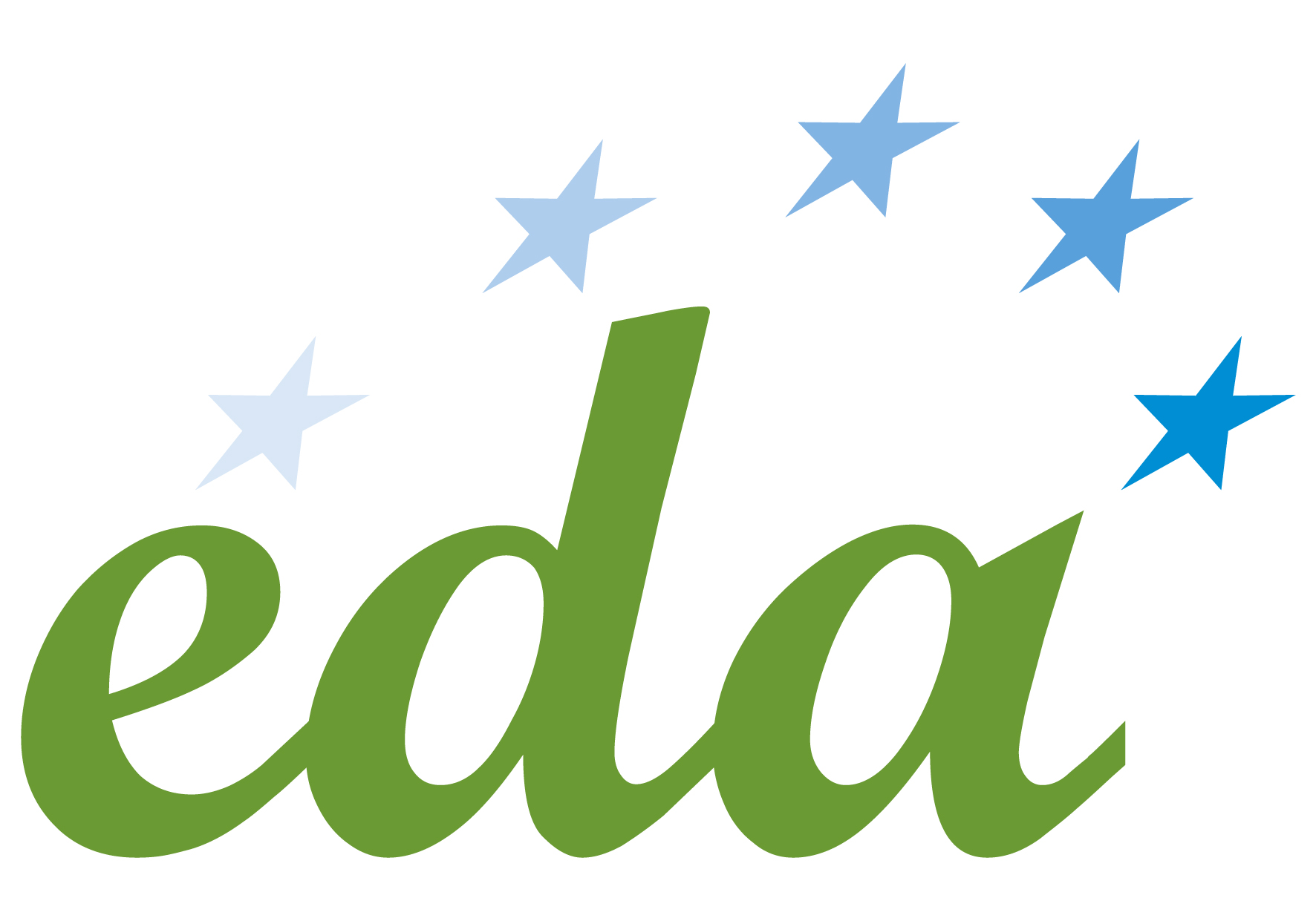 EDA logo